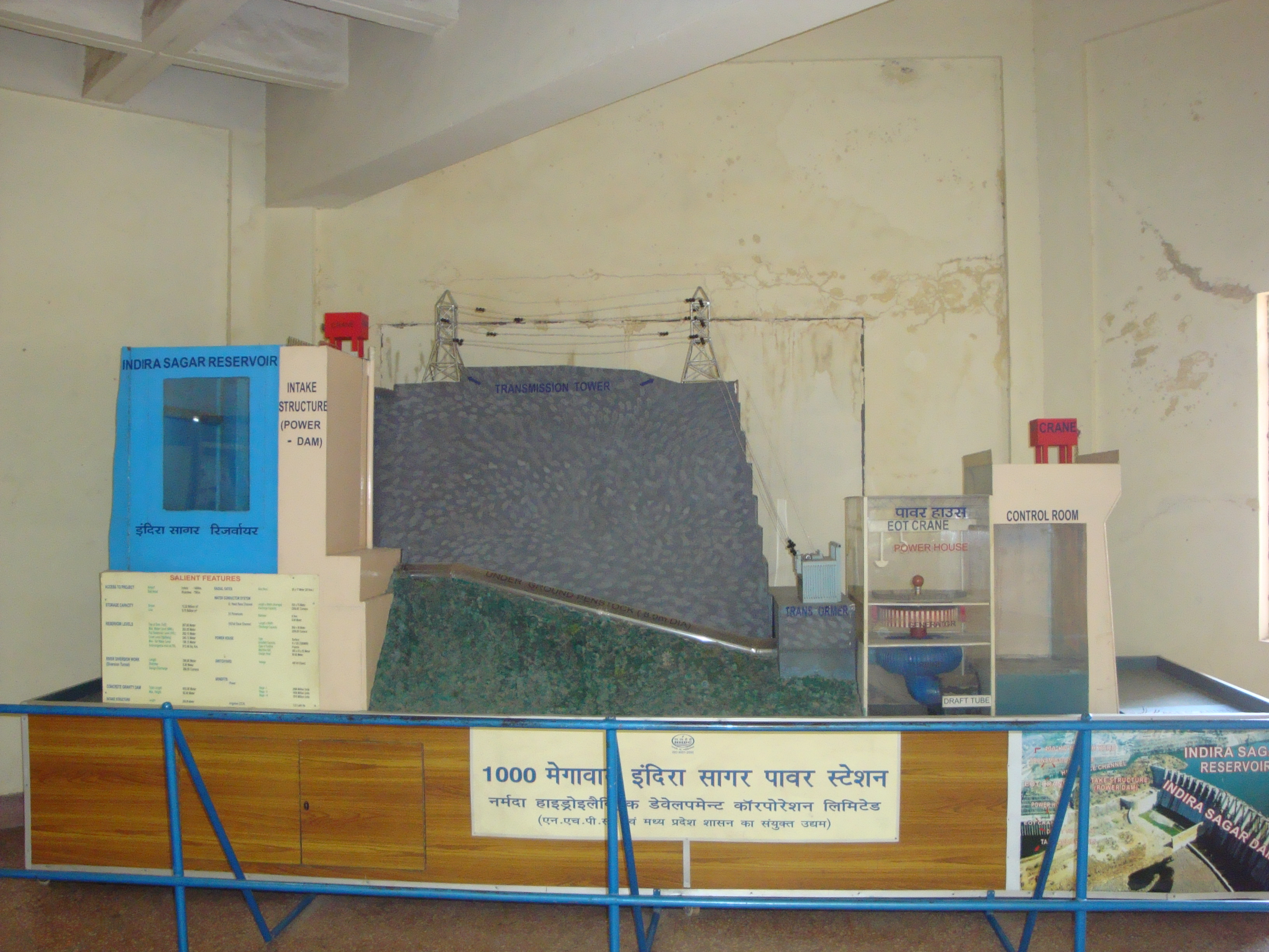 A model of the Indira Sagar Power Station at the Regional Science Centre, Bhopal